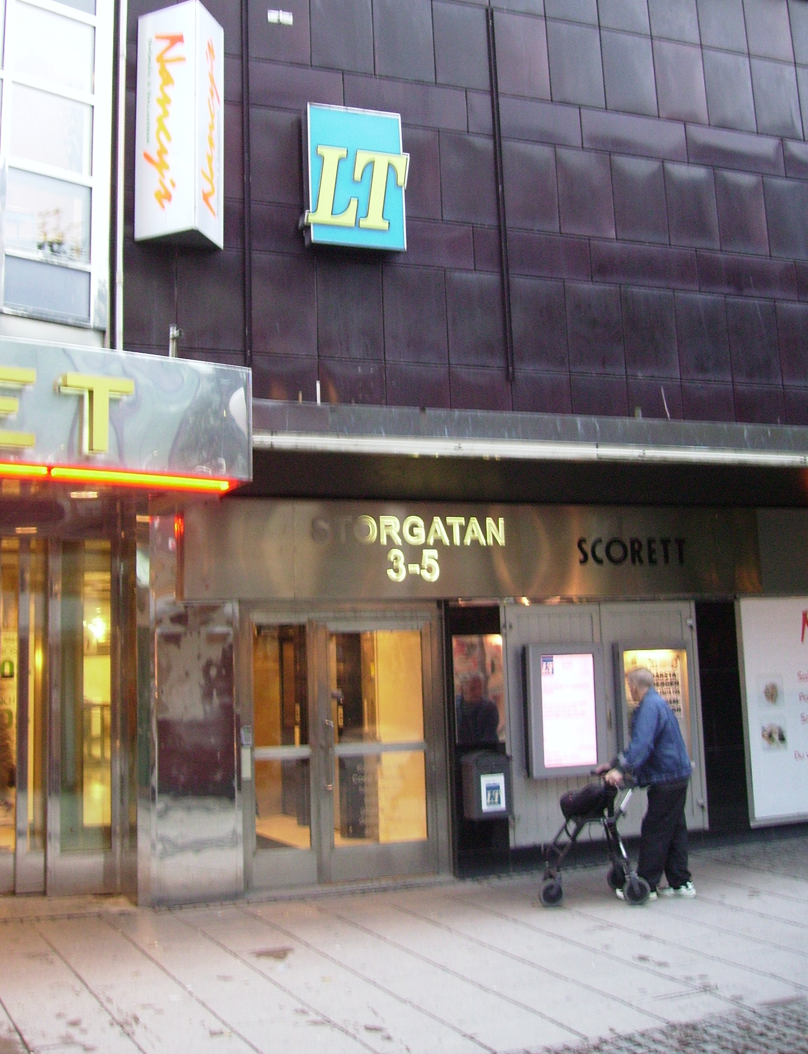 Picture of Länstidningen's (LT) building in Södertälje